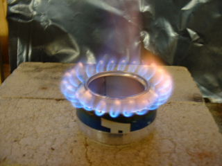 Single can pot supporting Soda Can Alcohol Stove